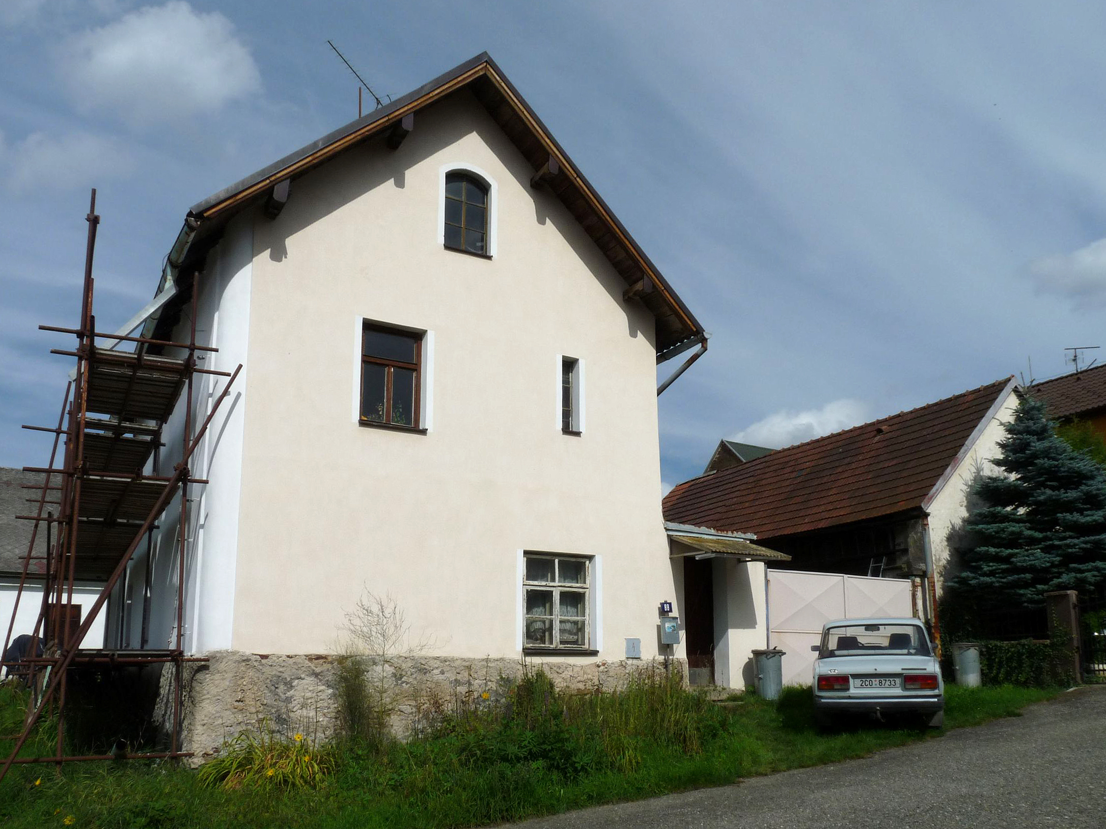 Former synagogue in the village of Radenín, Tábor District, Czech Republic, presently used as a house.